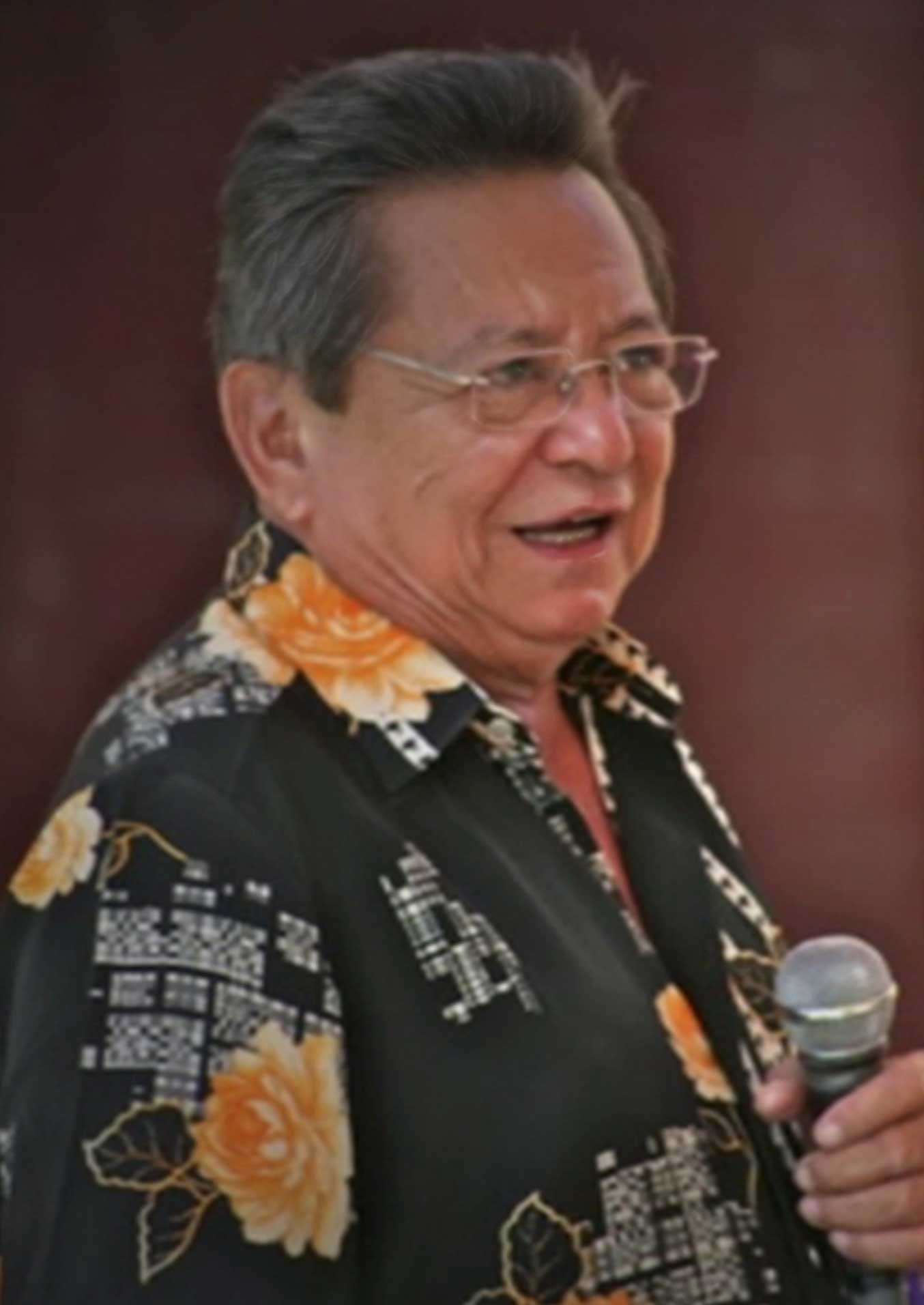 Vicente Magsaysay public speaking engagement